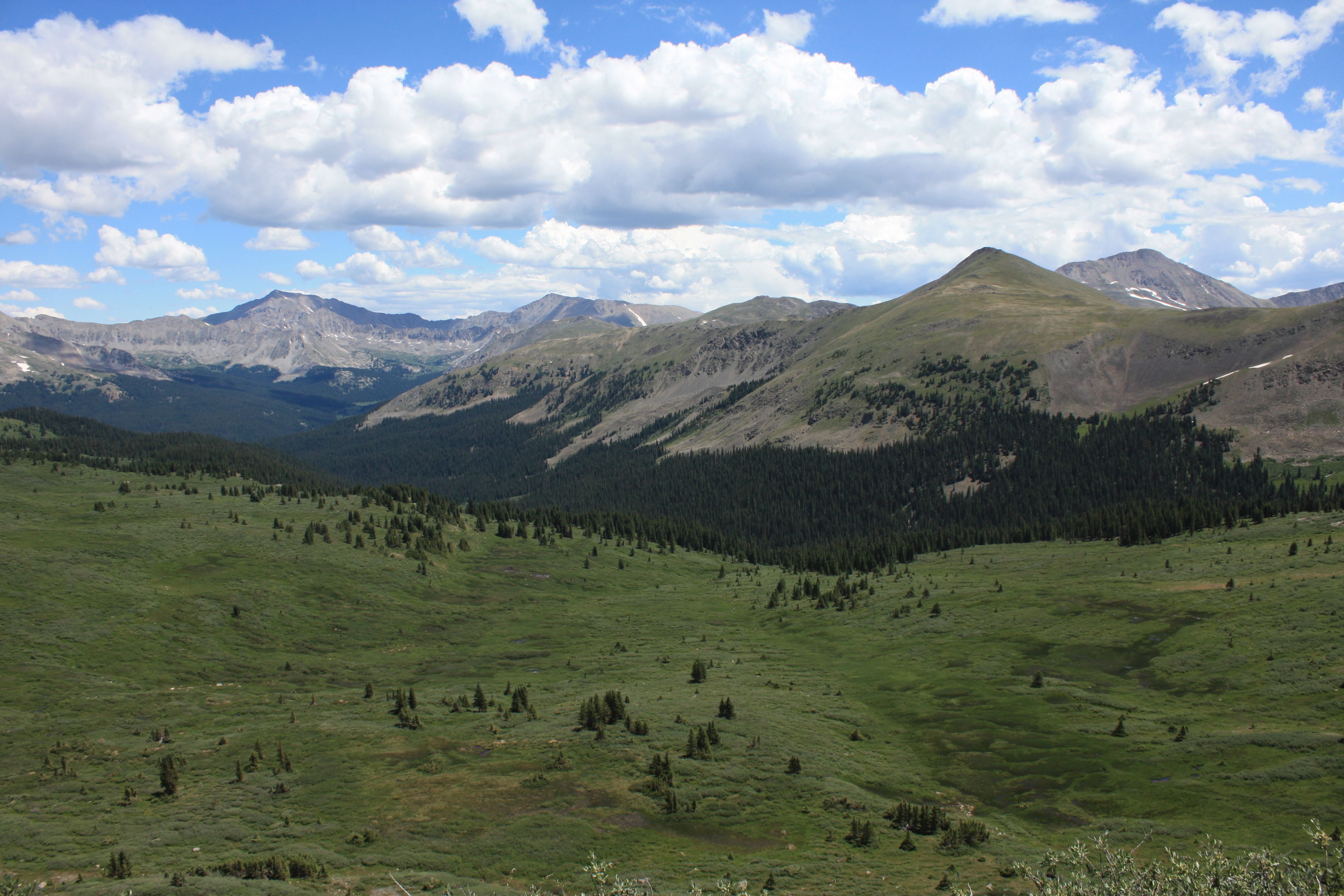 Three Collegiate Peaks - Mount Harvard, Mount Columbia and Mount Yale, taken from a hillside along the Continental Divide, just above Cottonwood Pass.